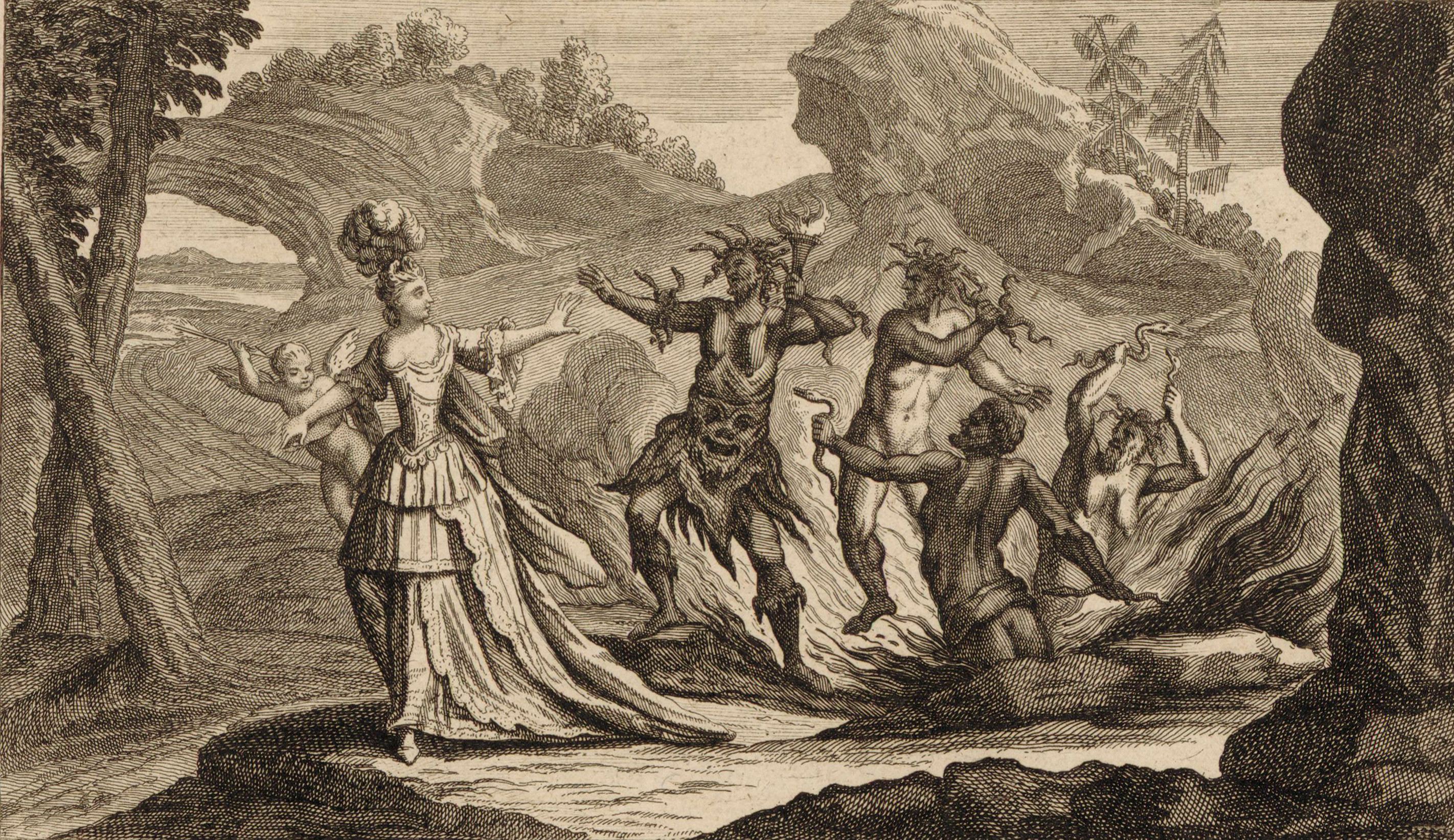 Lully - Armide - acte 3